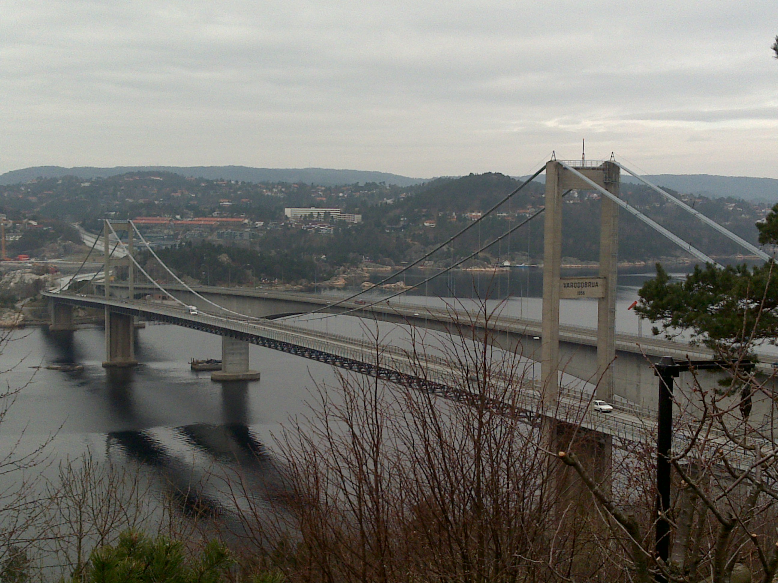 Varodd bridges, oldest in front and newest in back. Kristiansand, Norway.